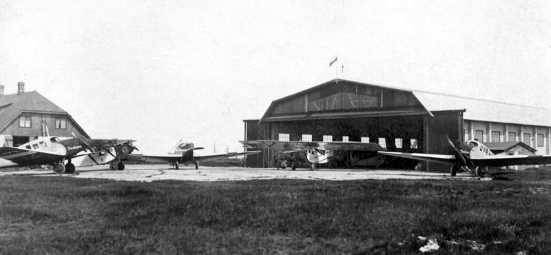 Aeronaut hangar with Junkers F.13 and Sablatnig P III aircraft at Lasnamäe Airfield in Tallinn, Estonia.